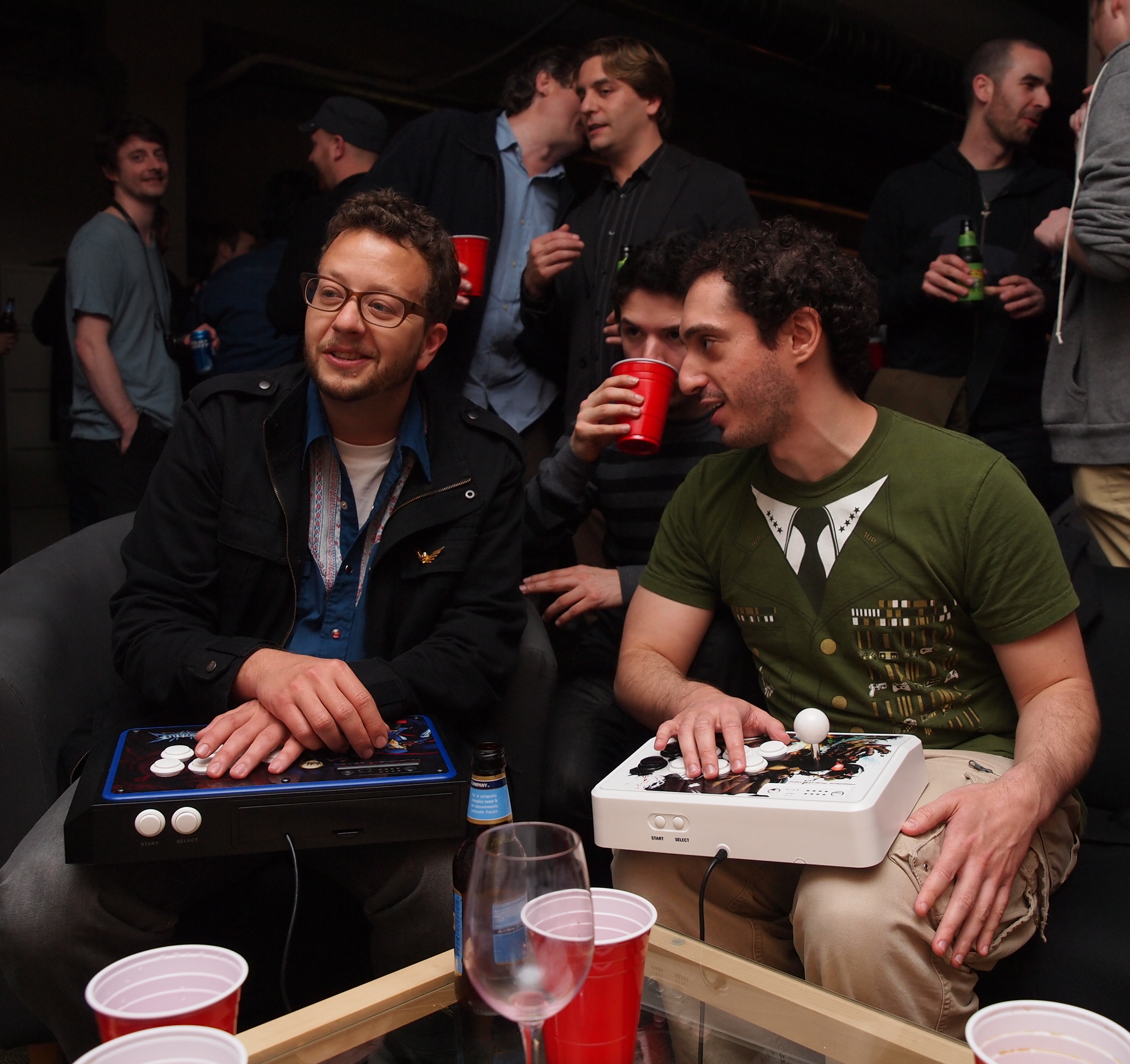 Mike Z talks Skullgirls with Seth Killian (V)